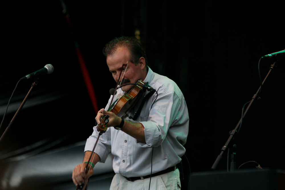 Janos Csik from Csik Zenekar